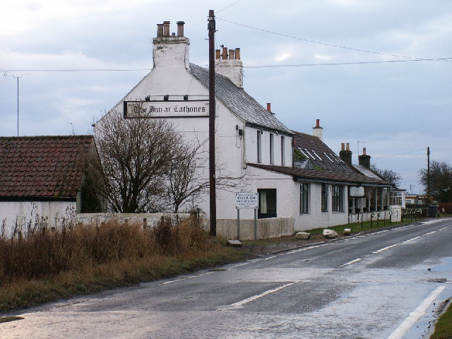 Lathones. Built over 400 years ago this is a fine example of a coaching Inn mid way between St Andrews and Largo.